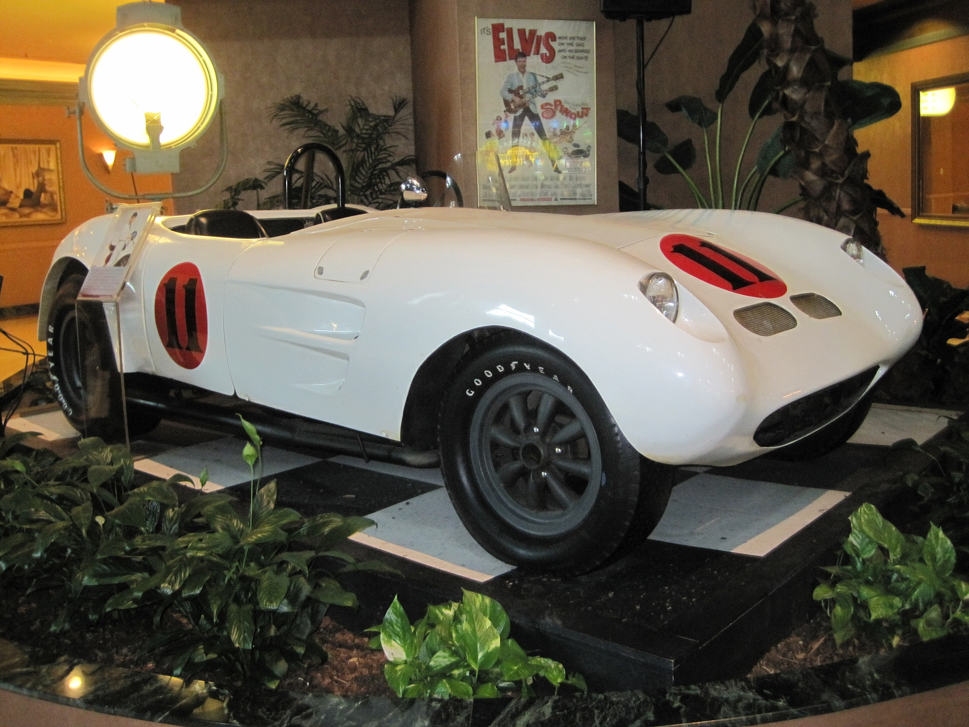 Hollywood Memorabilia Exhibit at the Hollywood Casino in Tunica, Mississippi. Cobra 427 from the Elvis Presley movie "Spinout"